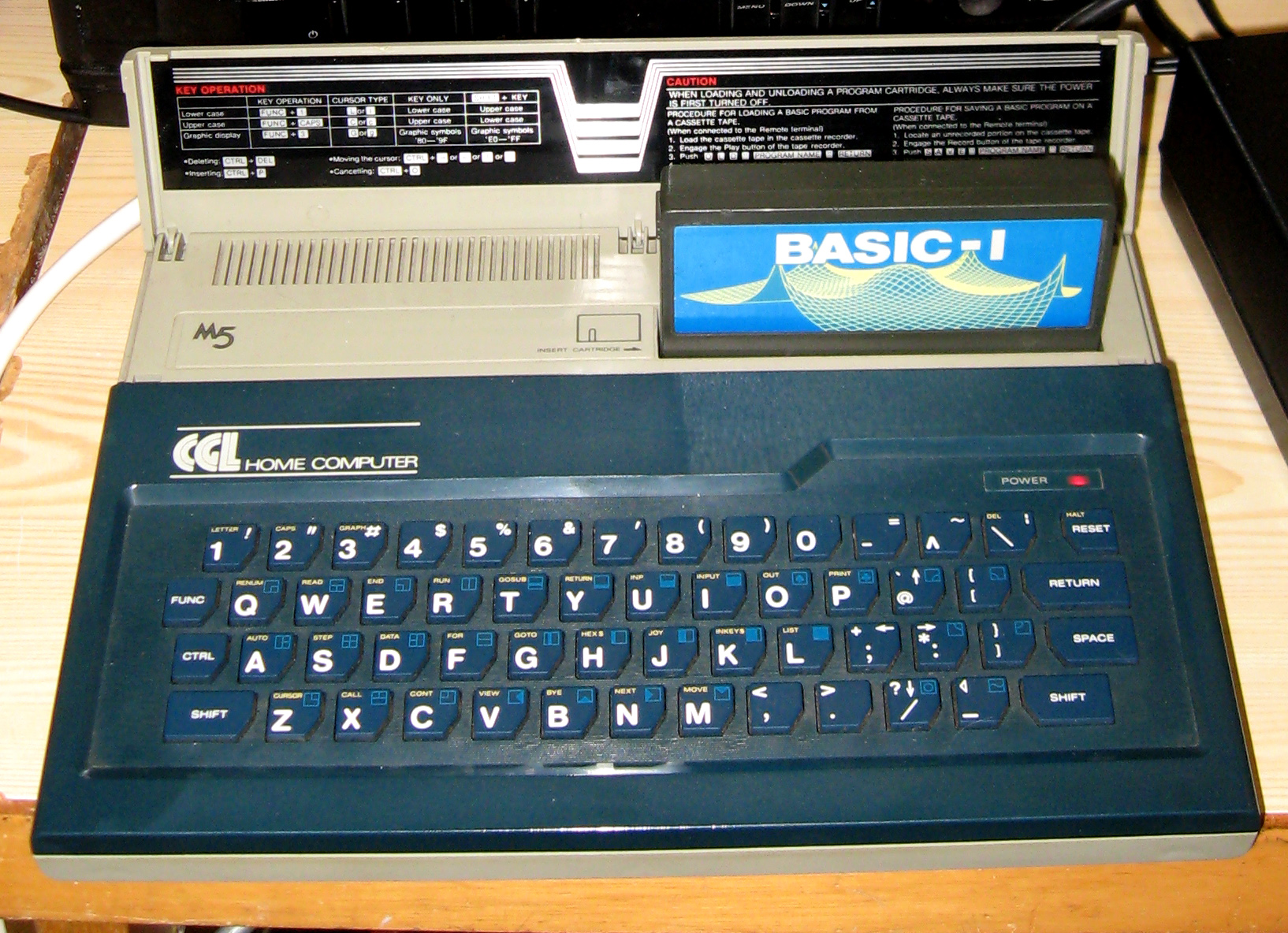 CGL M5, a version of Sord M5. Photo taken at Retro Gathering, Stockholm, 27 Sep 2008.